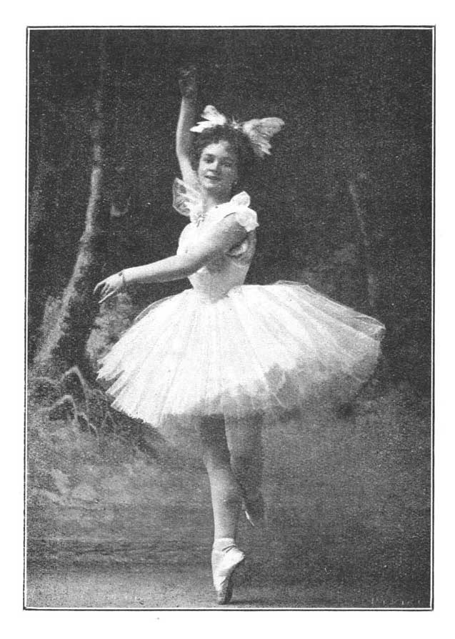 Fig. 66: Mlle. Adeline Genée, 1906. Photo, Ellis and Walery.